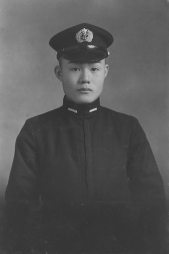 Kato Noboru (Lieutenant Junior Grade)